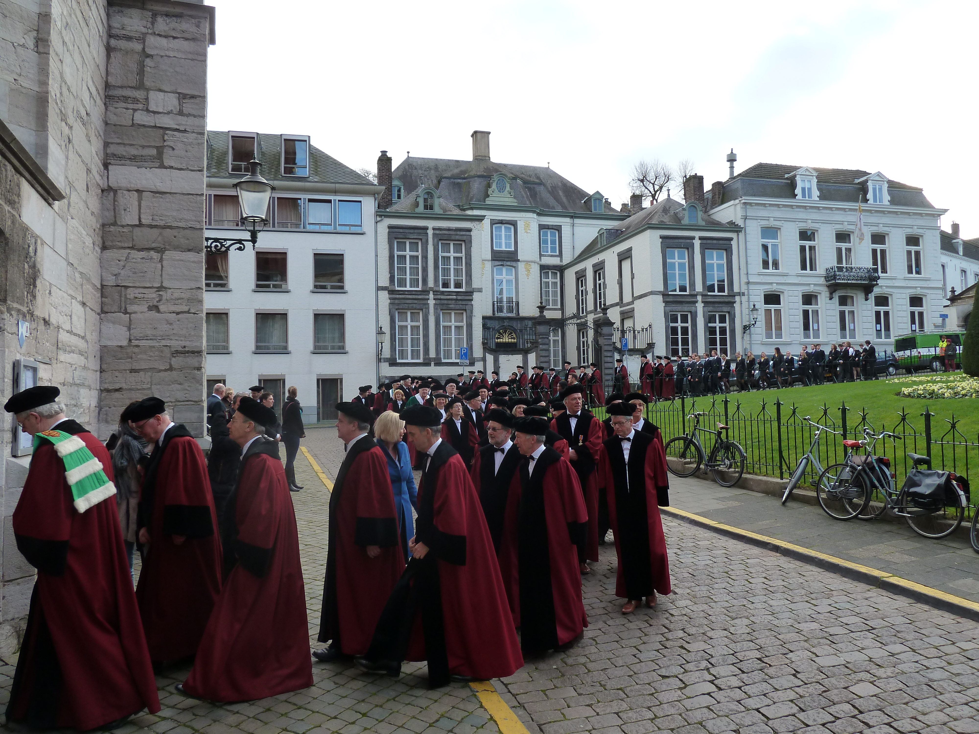 39th Dies Natalis of Maastricht University